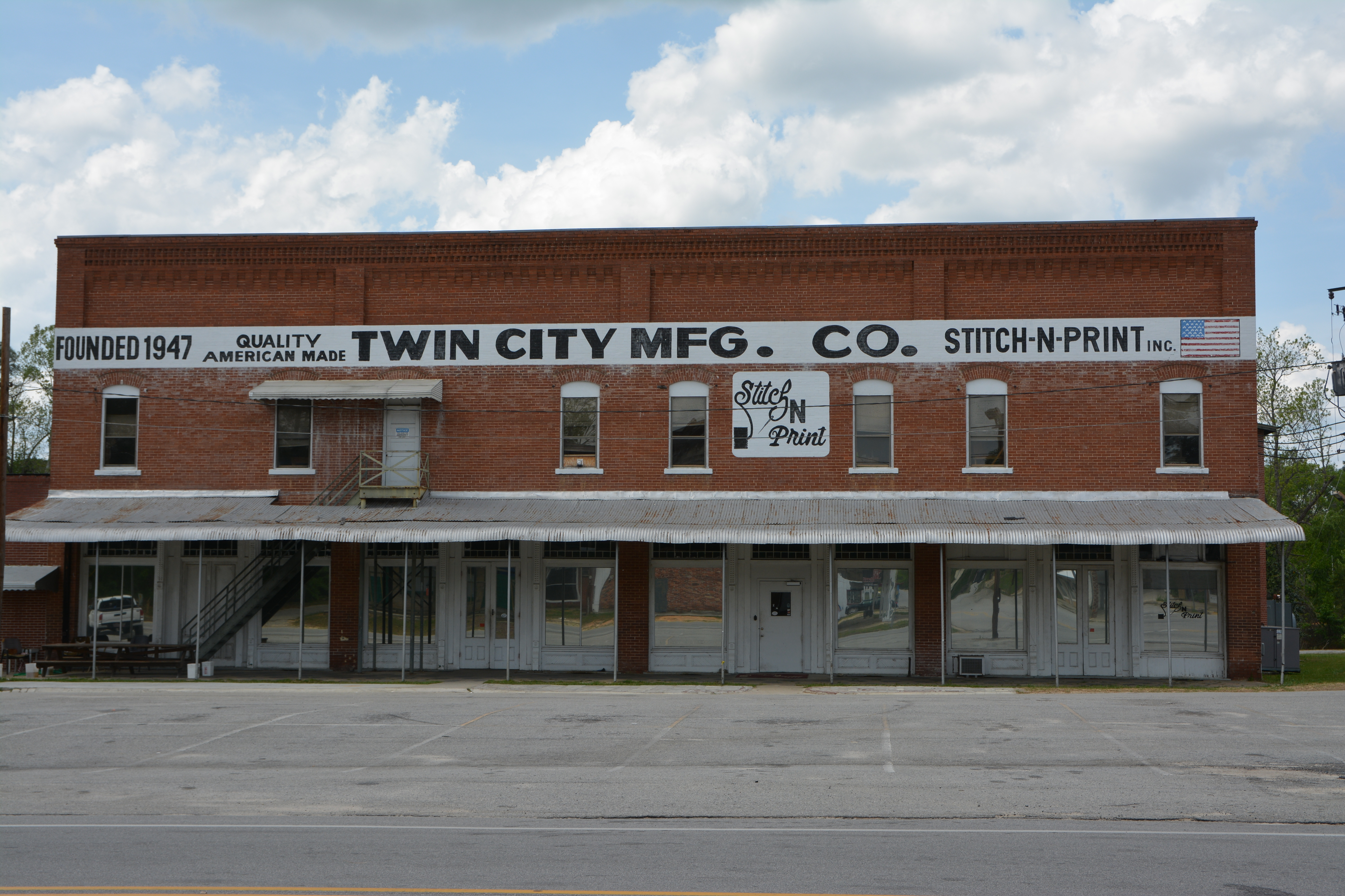 Twin City Historic District, Twin City, Georgia, U.S.